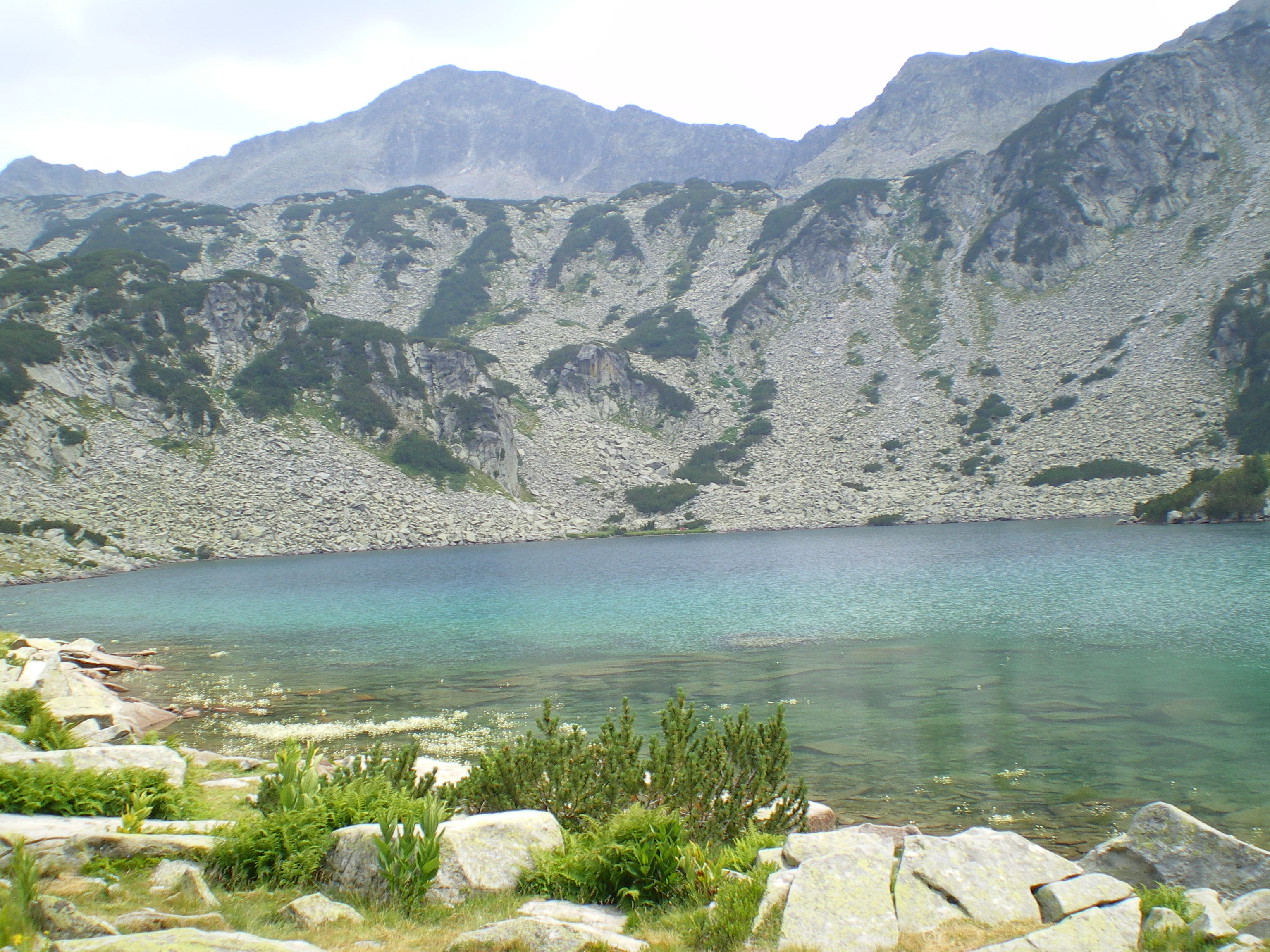 Banderishki chukar from Banderishko lake